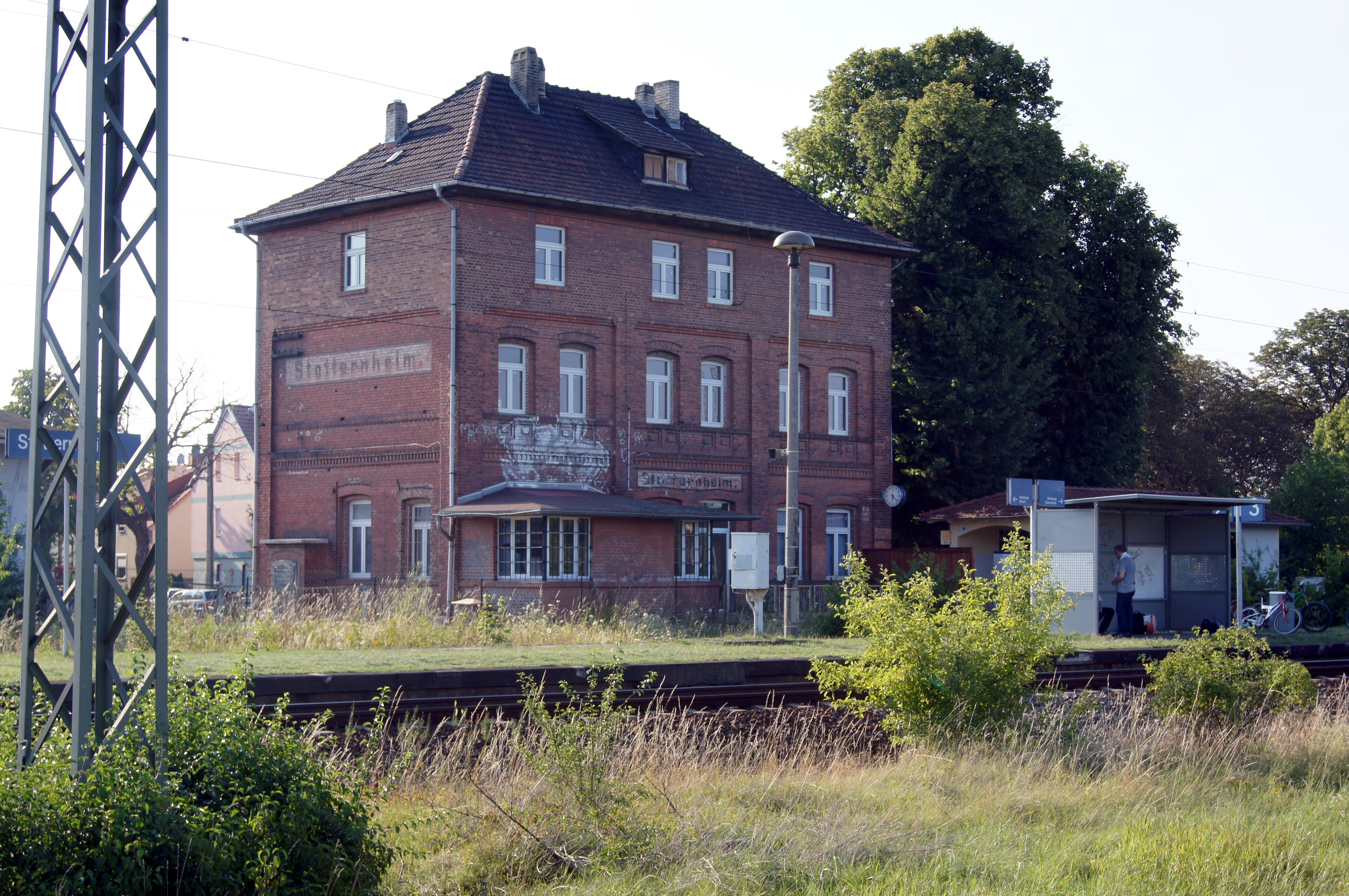 Train station Stotternheim, Erfurt, Thuringia, Germany